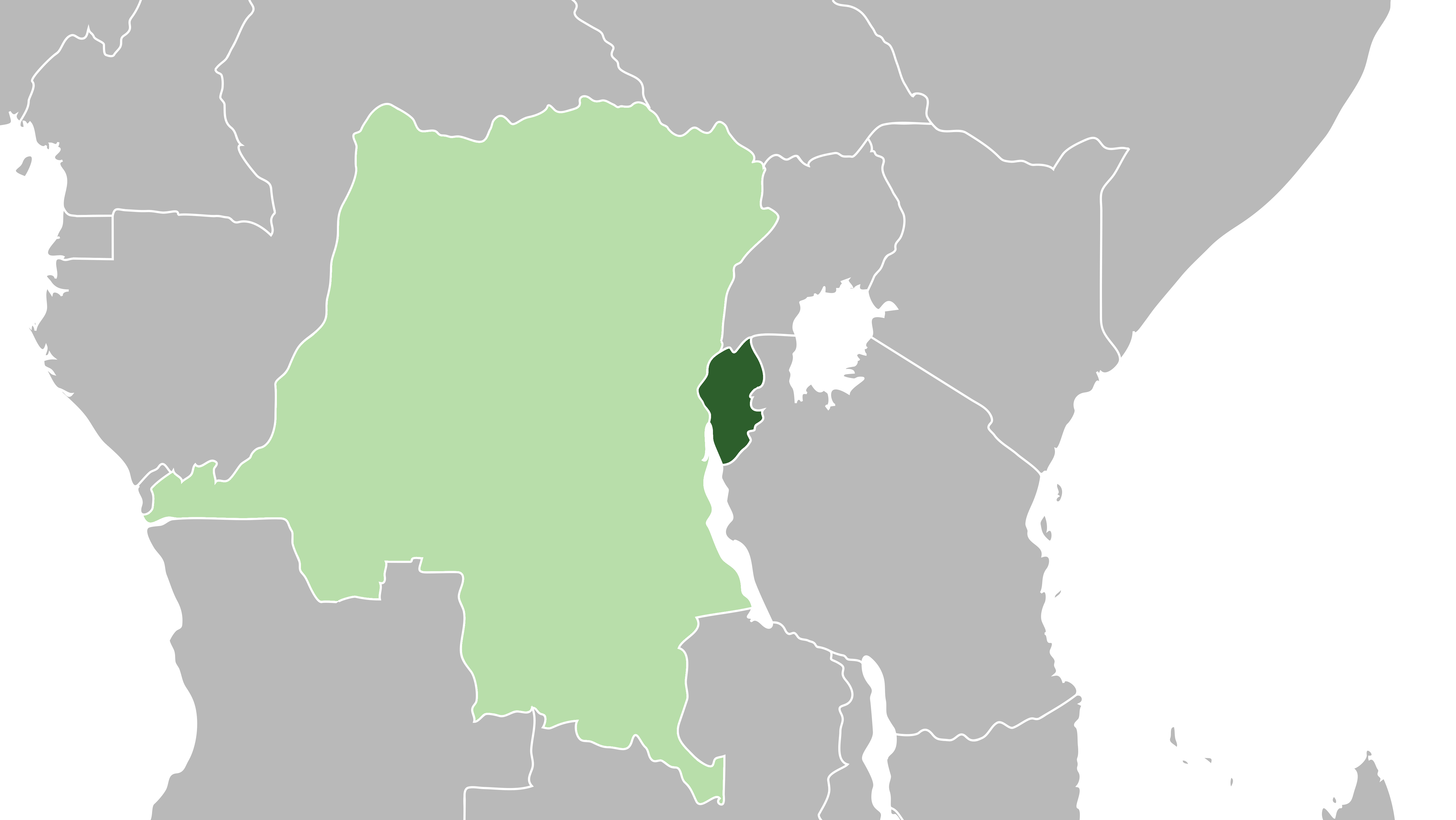 Belgian colony of Ruanda-Urundi (dark green) within the Belgian Empire (light green)